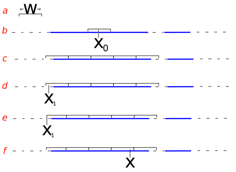 a summary of steps in slice sampling